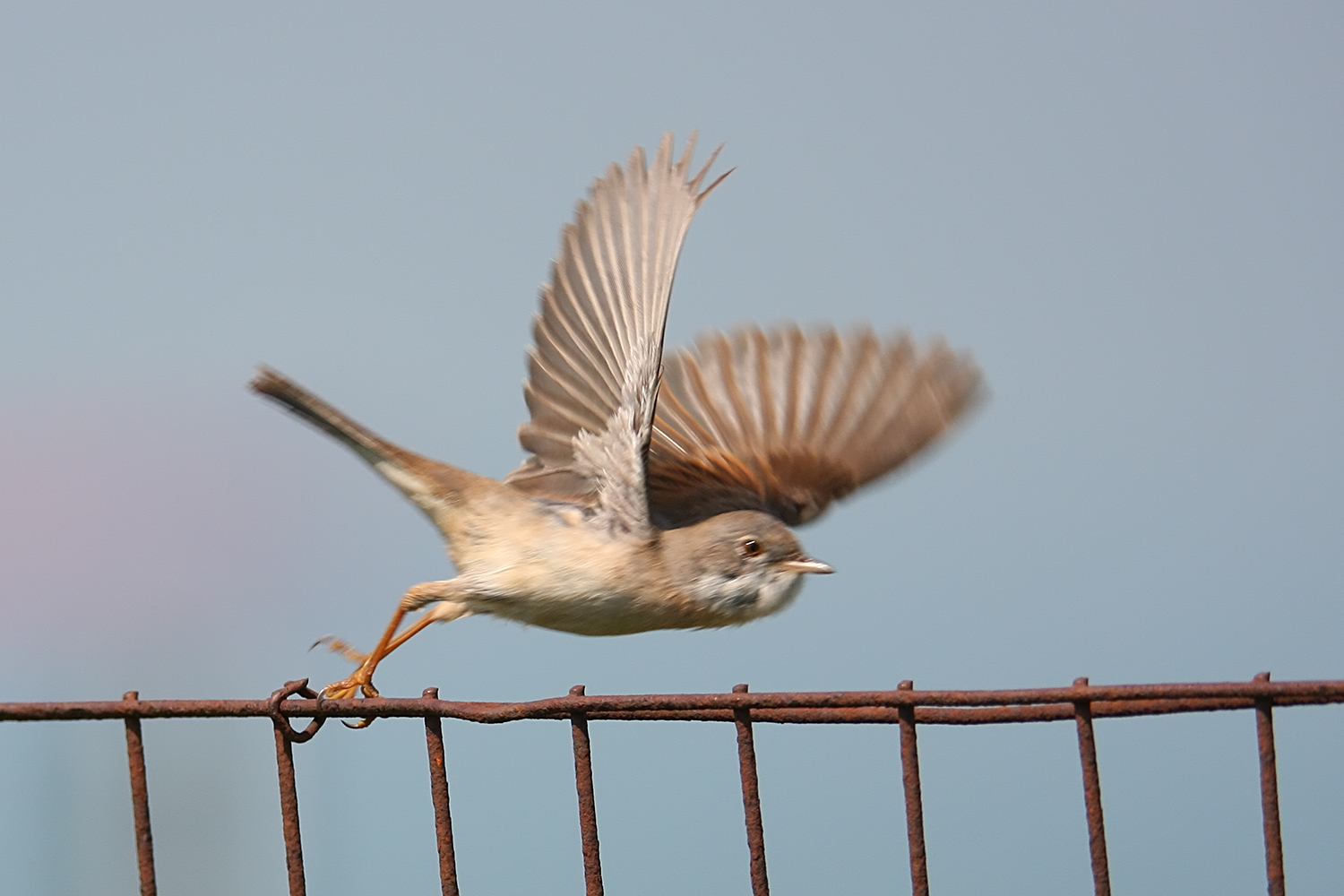 Whitethroat (Sylvia communis)